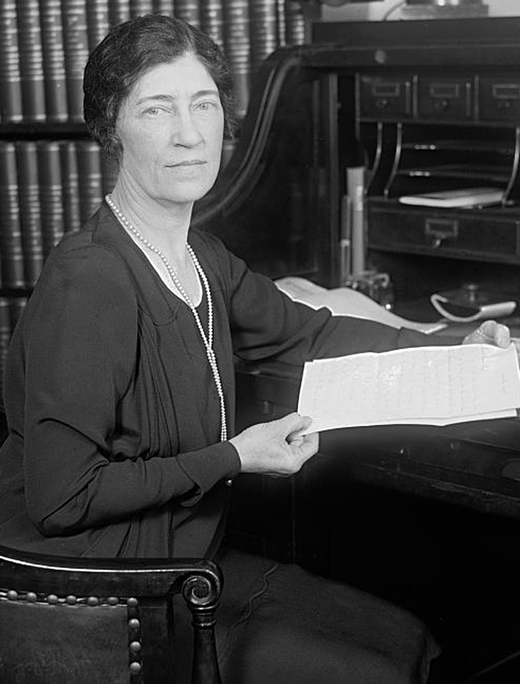 Pearl Peden Oldfield, US Representative from Arkansas